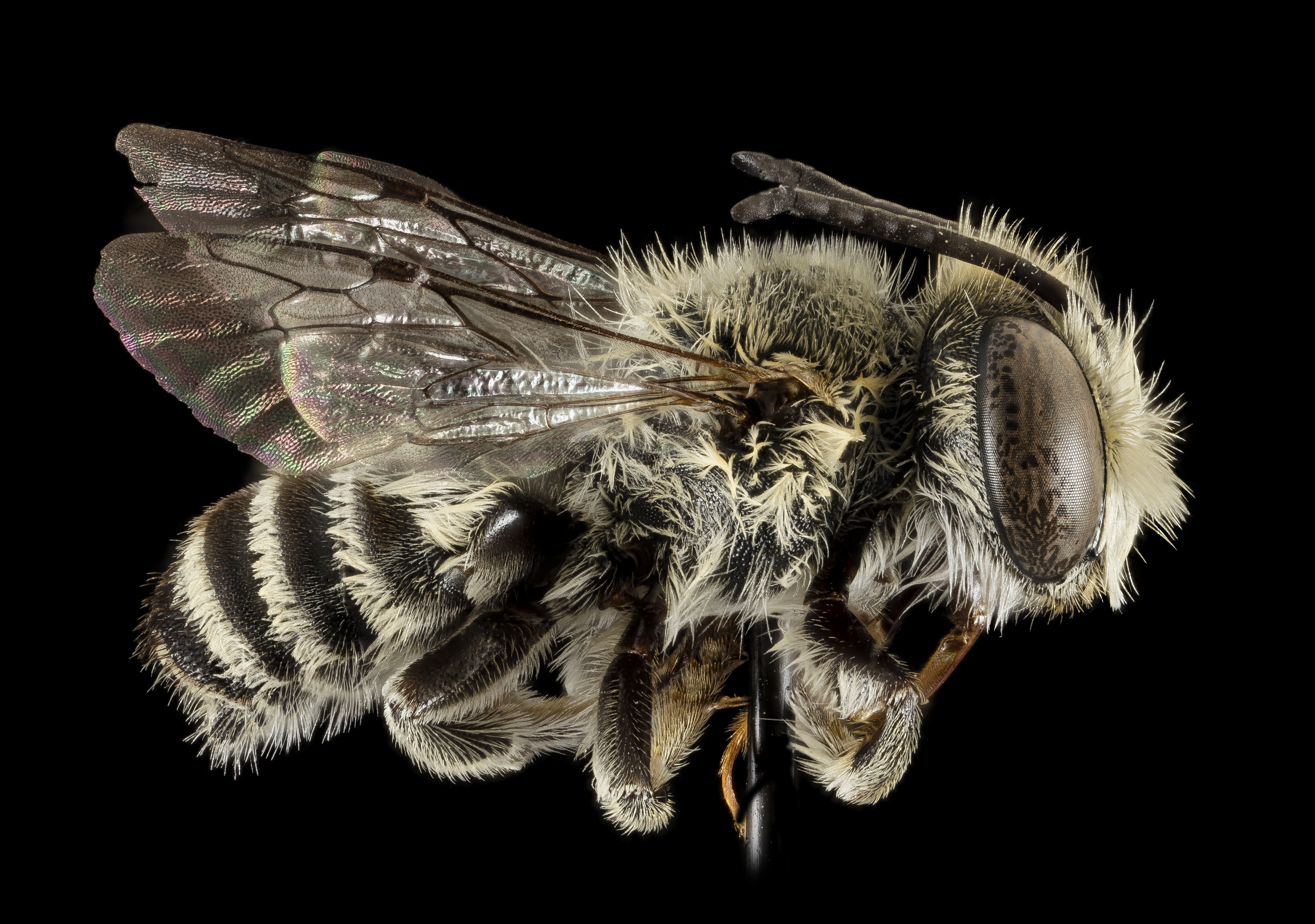 Here is a small leaf cutter from Puerto Rico. However, it is not native to P.R. but likely inadvertently introduced through its habit of nesting in holes in wood...which could be holes in pallets or packing crates. Found is scattered locations around North America and even in Hawaii. Recent DNA evaluations though have called its identity into question and it may actually be a similar species from the Mediterranean. Worthy of more investigations. Collected by Sara Prado and photographed by Brooke Alexander. 18:35, 9 February 2018 (UTC)18:35, 9 February 2018 (UTC) 0 18:35, 9 February 2018 (UTC)18:35, 9 February 2018 (UTC) All photographs are public domain, feel free to download and use as you wish. Photography Information: Canon Mark II 5D, Zerene Stacker, Stackshot Sled, 65mm Canon MP-E 1-5X macro lens, Twin Macro Flash in Styrofoam Cooler, F5.0, ISO 100, Shutter Speed 200 Beauty is truth, truth beauty - that is all Ye know on earth and all ye need to know " Ode on a Grecian Urn" John Keats You can also follow us on Instagram - account = USGSBIML Want some Useful Links to the Techniques We Use? Well now here you go Citizen: Art Photo Book: Bees: An Up-Close Look at Pollinators Around the World Free Field Guide to Bee Genera of Maryland Basic USGSBIML set up: USGSBIML Photoshopping Technique: Note that we now have added using the burn tool at 50% opacity set to shadows to clean up the halos that bleed into the black background from "hot" color sections of the picture. Bees of Maryland Organized by Taxa with information on each Genus PDF of Basic USGSBIML Photography Set Up: ftp://ftpext.usgs.gov/pub/er/md/laurel/Droege/How%20to%20Take%20MacroPhotographs%20of%20Insects%20BIML%20Lab2.pdf Google Hangout Demonstration of Techniques: or Excellent Technical Form on Stacking: Contact information: Sam Droege 301 497 5840